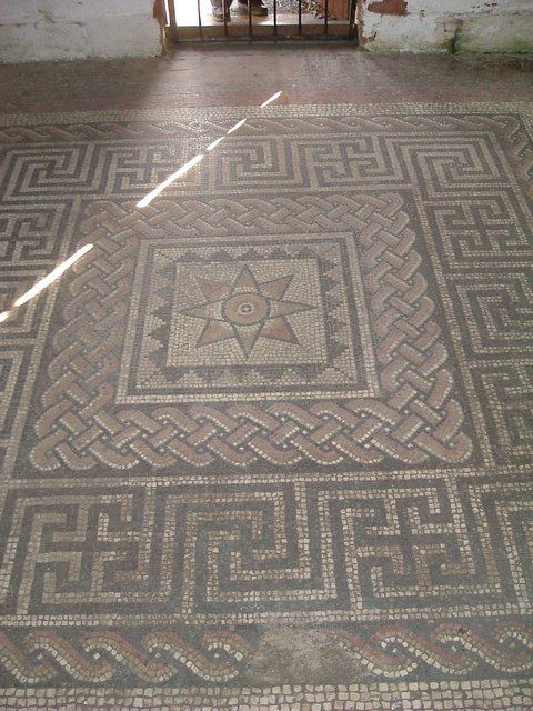 Roman Mosaic Pavement, Aldborough Roman Mosaic Pavement at village of Aldborough, North Yorkshire. Site is owned by English Heritage